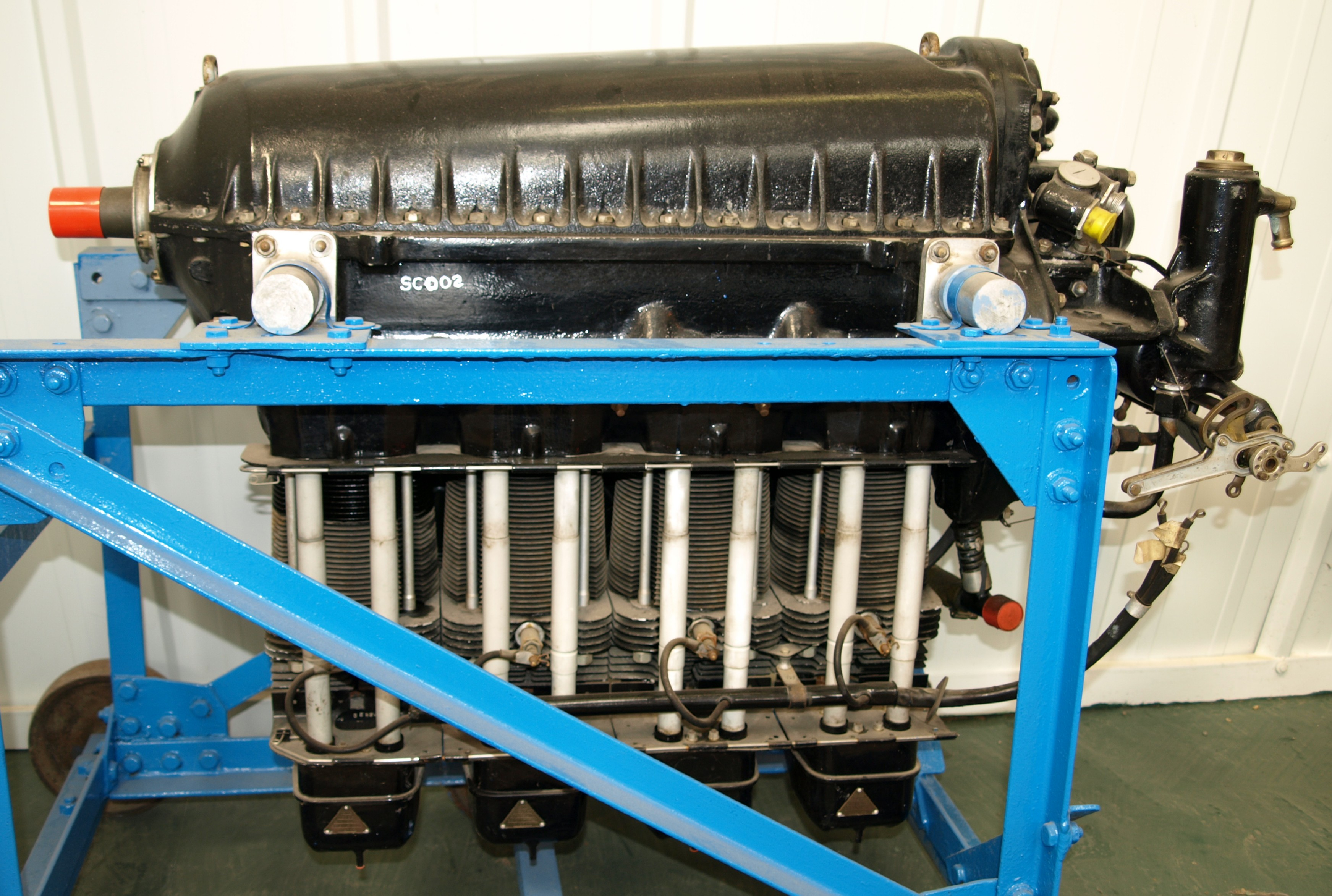 de Havilland Gipsy Major aircraft engine on display at the Shuttleworth Collection